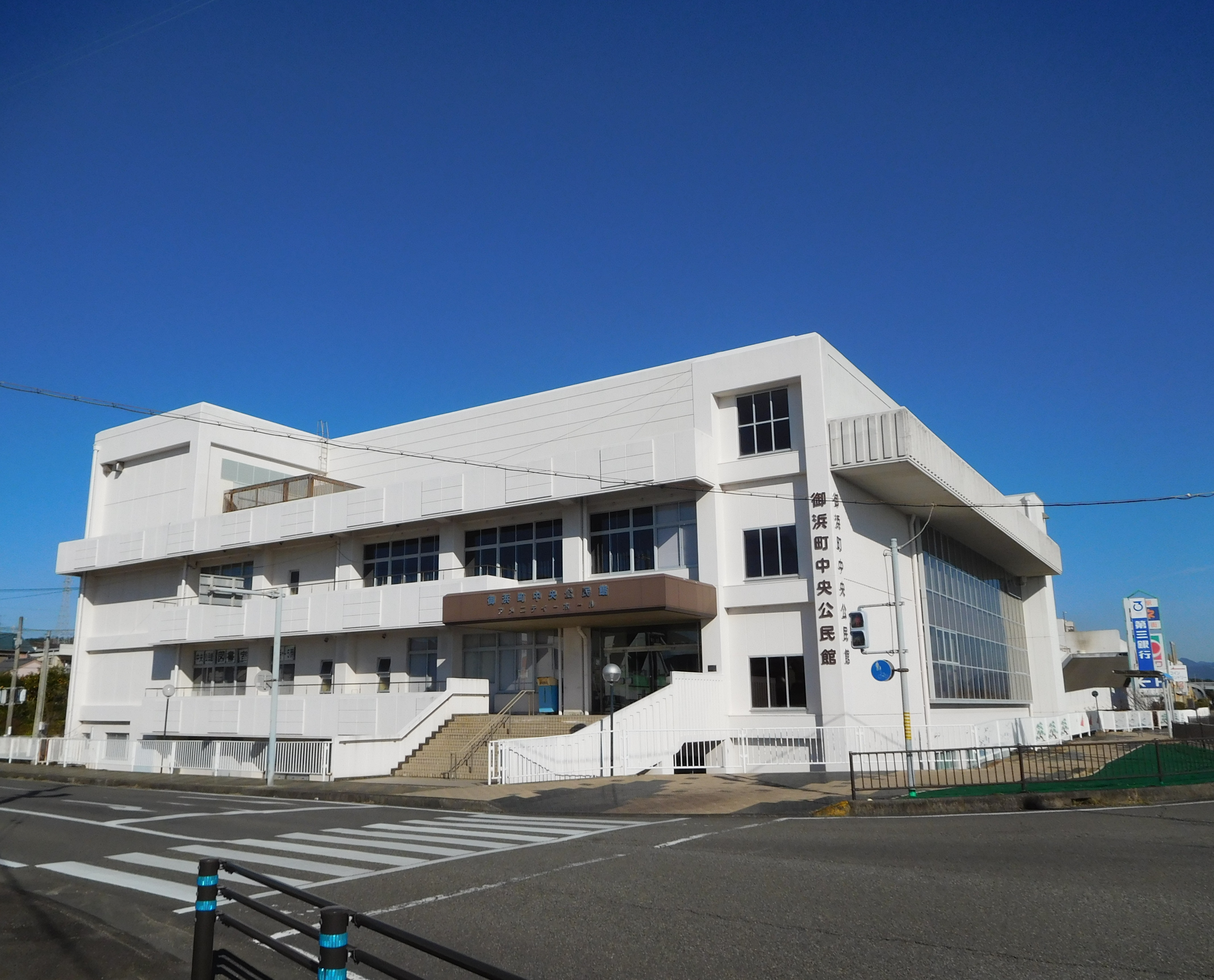 This is the Mihama Town Central Community Center in Mihama, Mie, Japan.